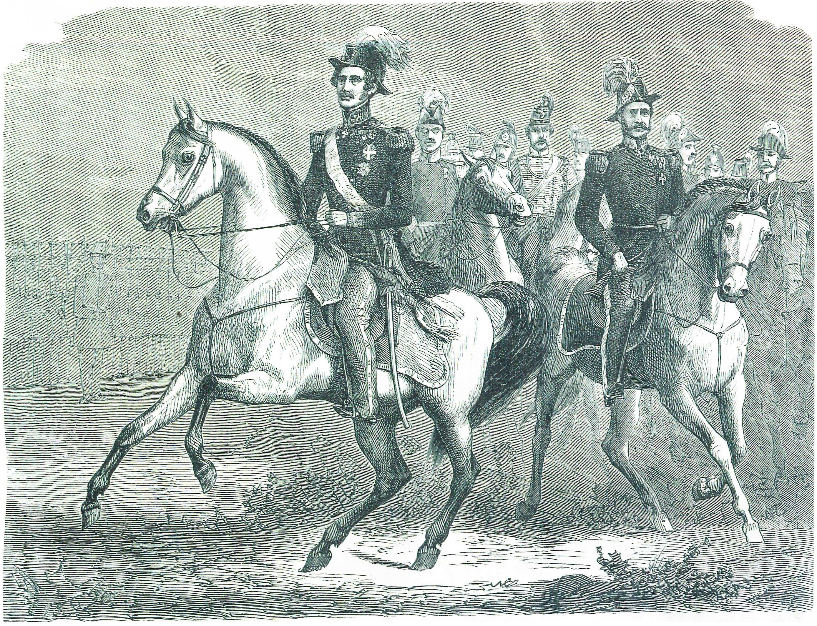 Generalløjtenant Christian Julius de Meza and his staff.